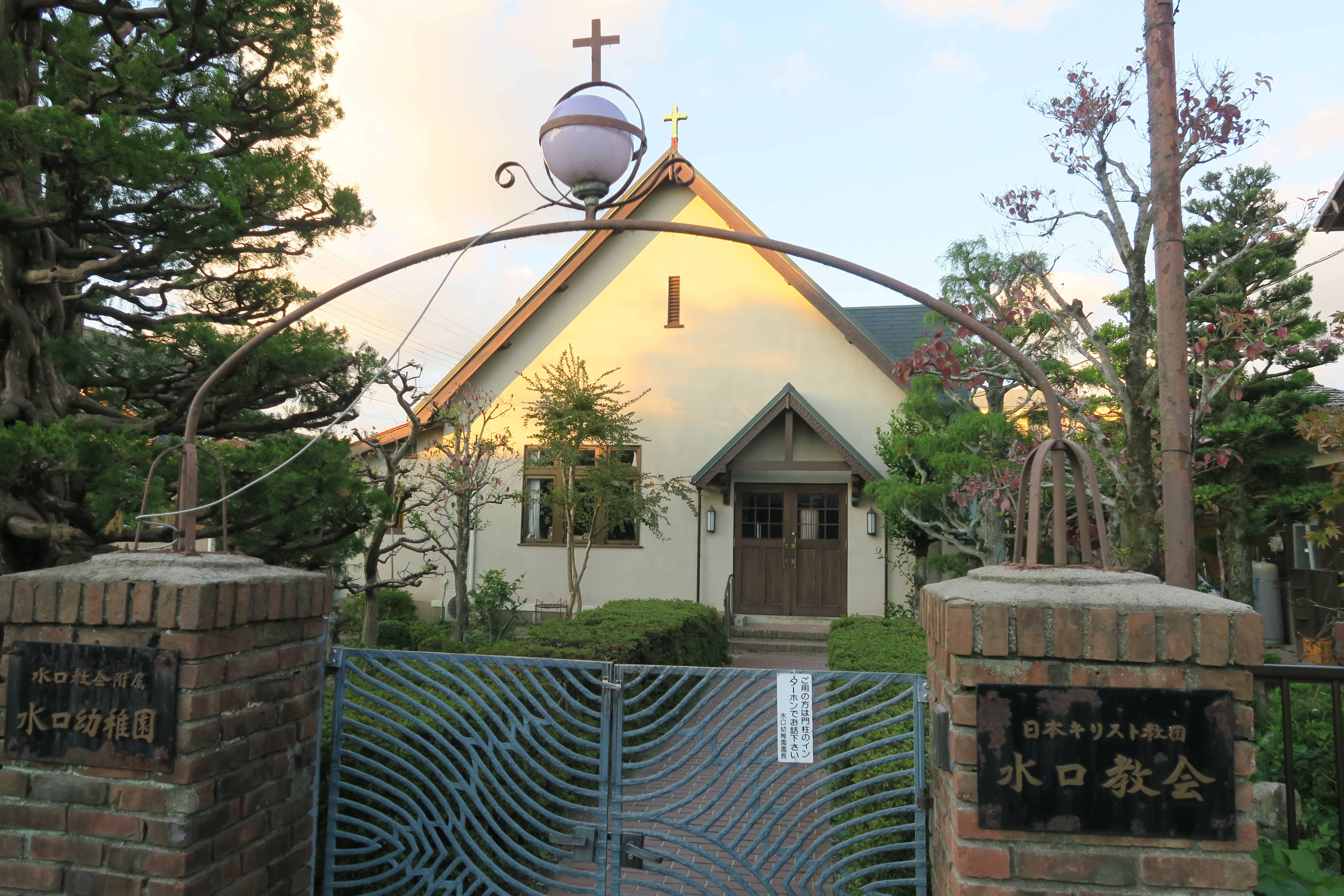 Minakuchi church, Koka, Shiga, Japan